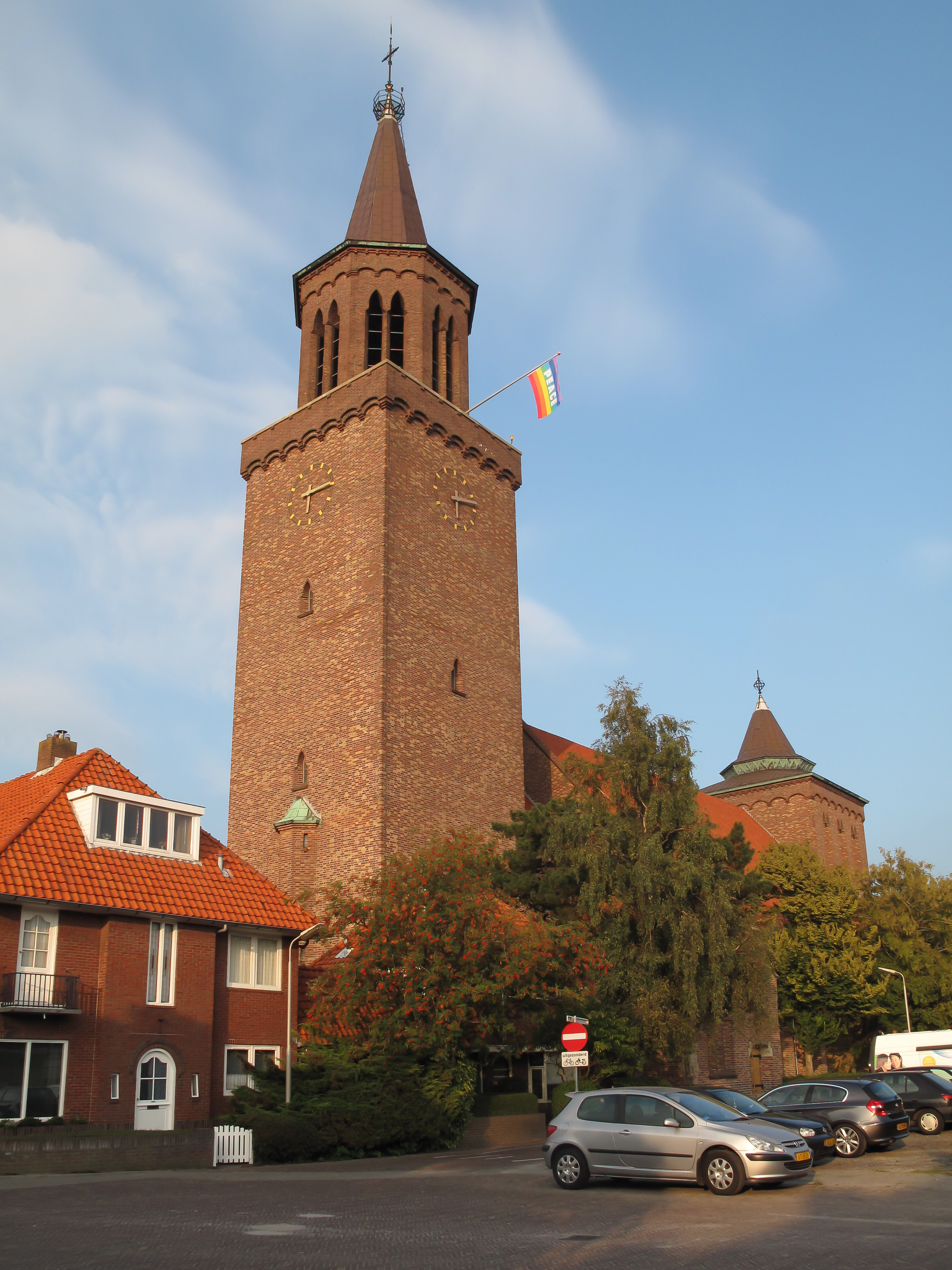 Leeuwarden, church